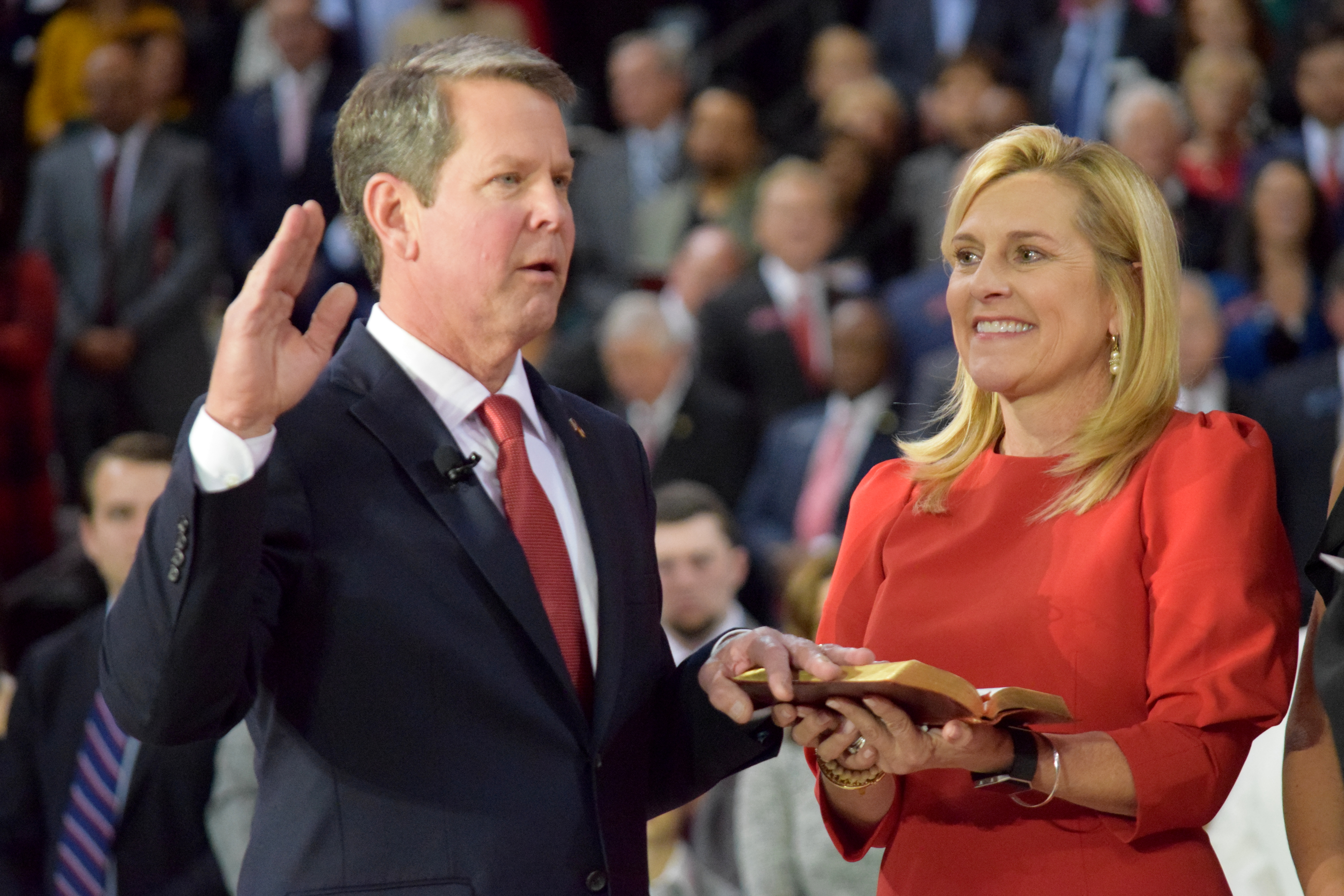 Brian Kemp takes the oath of office becoming the 83rd Governor of the state of Georgia Jan. 14, 2019 at the Georgia Institute of Technology. Following his inauguration, Governor Kemp; Maj. Gen. Joe Jarrard, Georgia’s Adjutant General and Department of Public Safety Commissioner Mark W. McDonough reviewed a formation of Georgia State Patrol Officers and Soldiers, Airmen and Ga, State Defense Force Volunteers. Georgia National Guard photo by Maj. William Carraway